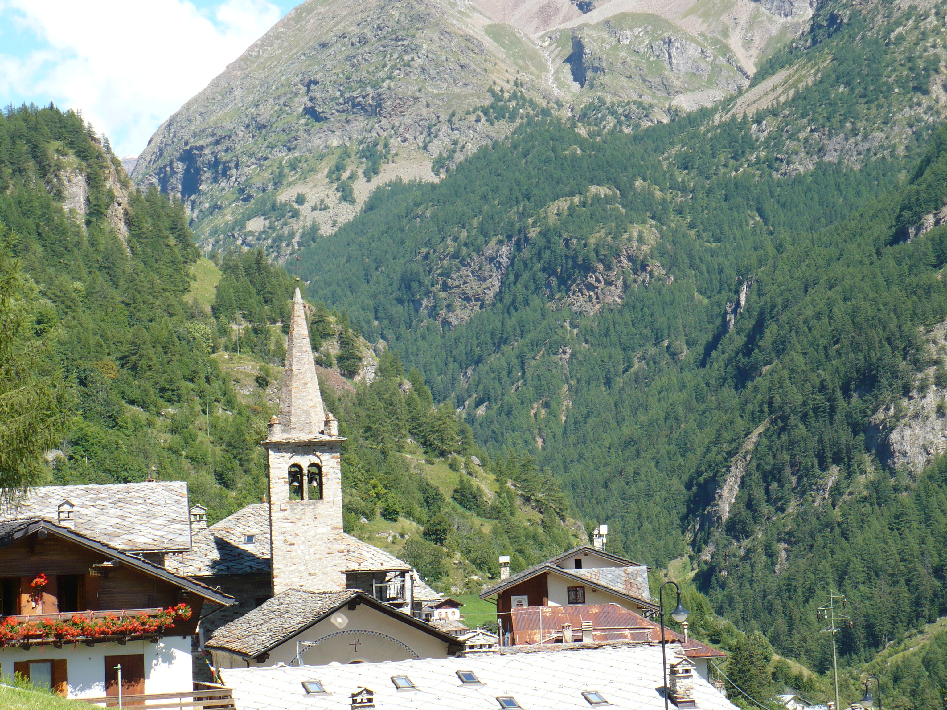 Bionaz - Valpelline - Aosta Valley - Italy